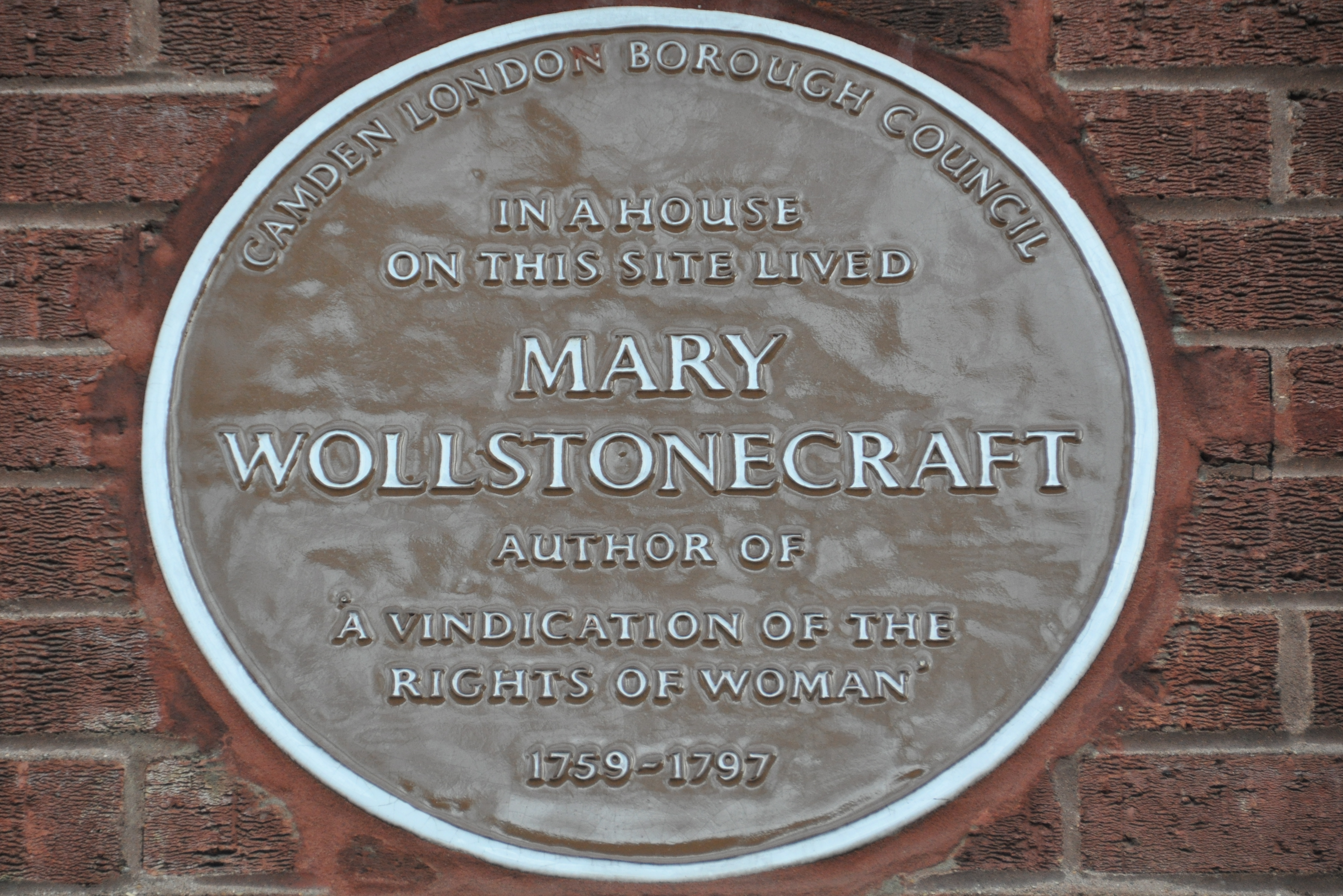 Plaque of Mary Wollstonecraft at her last residence, The Polygon, where she died in 1797